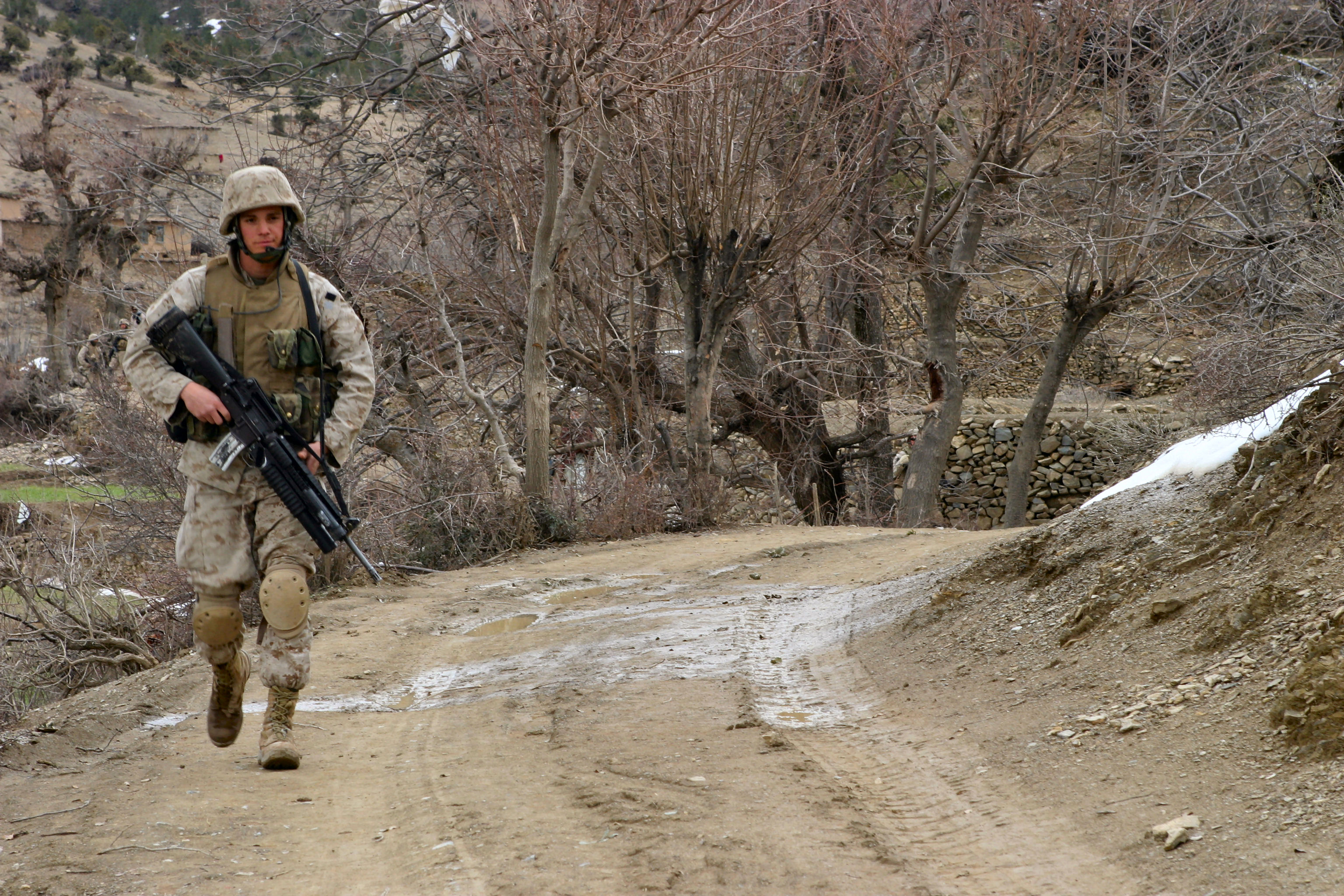 KHOWST PROVINCE, Afghanistan (March 8, 2005) - U.S. Marine Lance Cpl. Nick Fernandez, a rifleman with Weapons Company, 3rd Battalion, 3rd Marine Regiment provides security during a security operation in Khowst Province, Afghanistan, March 8. The 3/3 Regiment is conducting security and stabilization operations in support of Operation Enduring Freedom. U.S. Marine Corps photo by Cpl. James L. Yarboro.